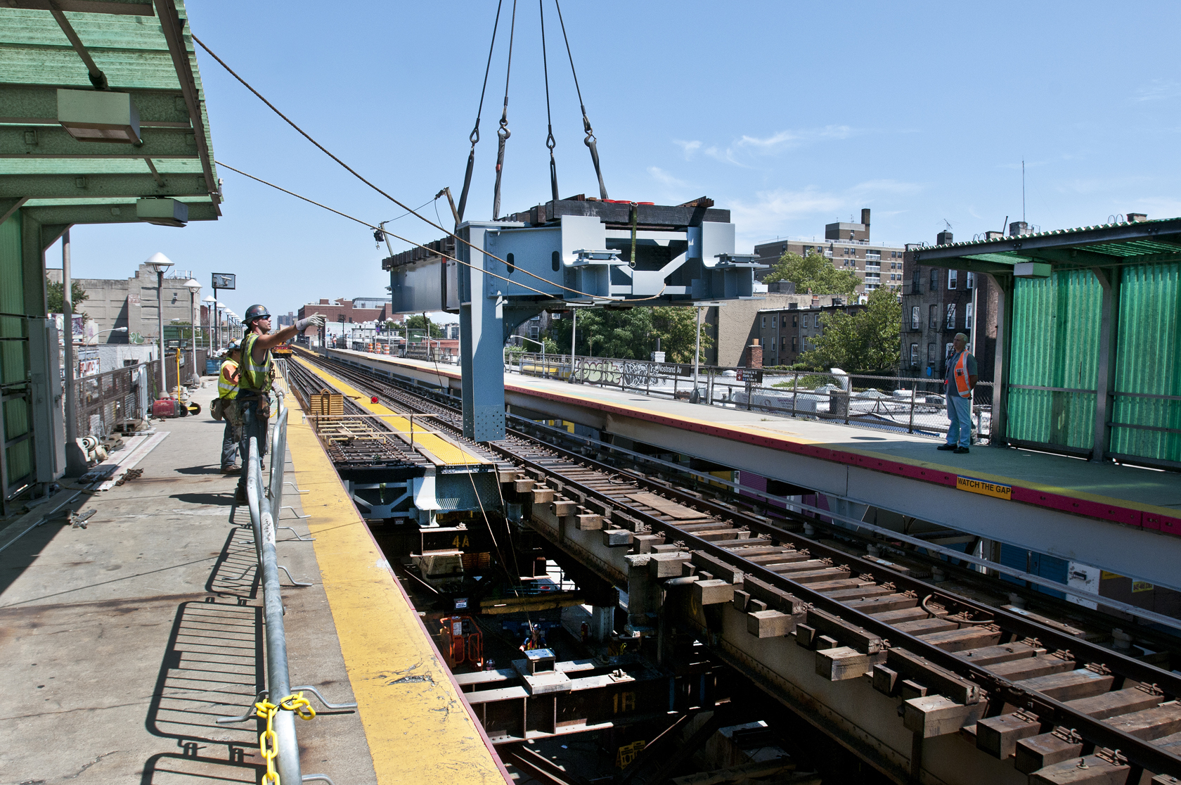 On Saturday, July 30, workers replaced sections of the LIRR's Atlantic Avenue Viaduct at the Nostrand Avenue Station. The rehabilitation includes the strengthening and repair of existing column bases; complete replacement of the existing steel superstructure from mid-column upward, utilizing the existing column bases; installation of a new, improved track structure, complete painting of the structure and the installation of new and improved lighting under the viaduct. This is Phase 3 of LIRR's four-phase rehabilitation and replacement of the viaduct and the Nostrand Avenue station. The viaduct, which was built in 1901, carries 25,000 people per weekday between Jamaica and downtown Brooklyn. Photo by Metropolitan Transportation Authority / Patrick Cashin.